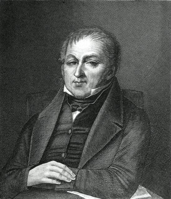 Jacques Dupont de l'Eure (1767-1855), french statesman